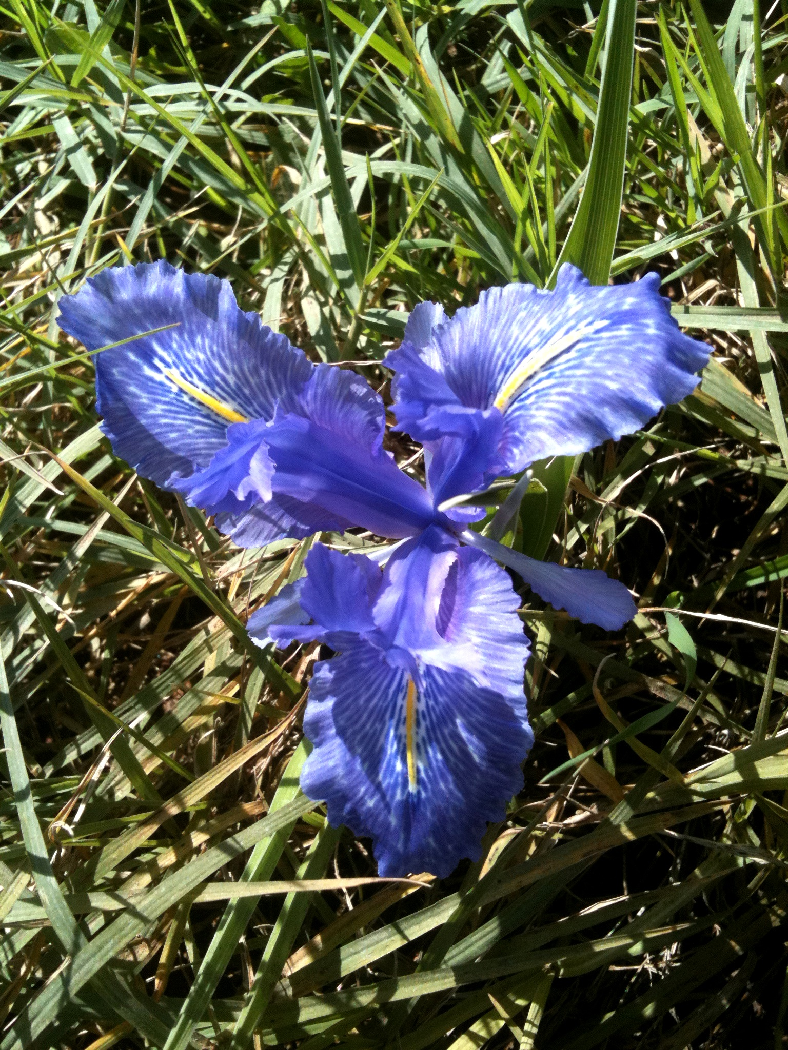 Iris planifolia